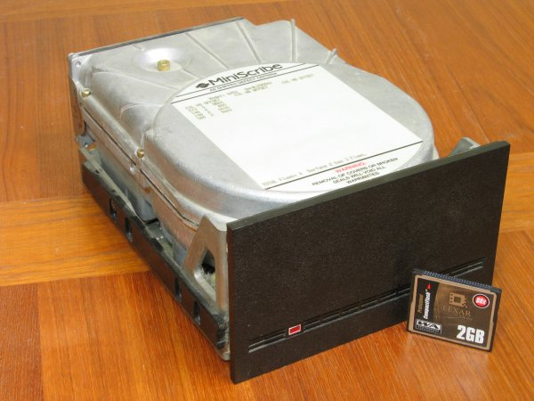 A 44 megabyte full-height 5.25″ MiniScribe hard disk drive and a 2 gigabyte CompactFlash card.